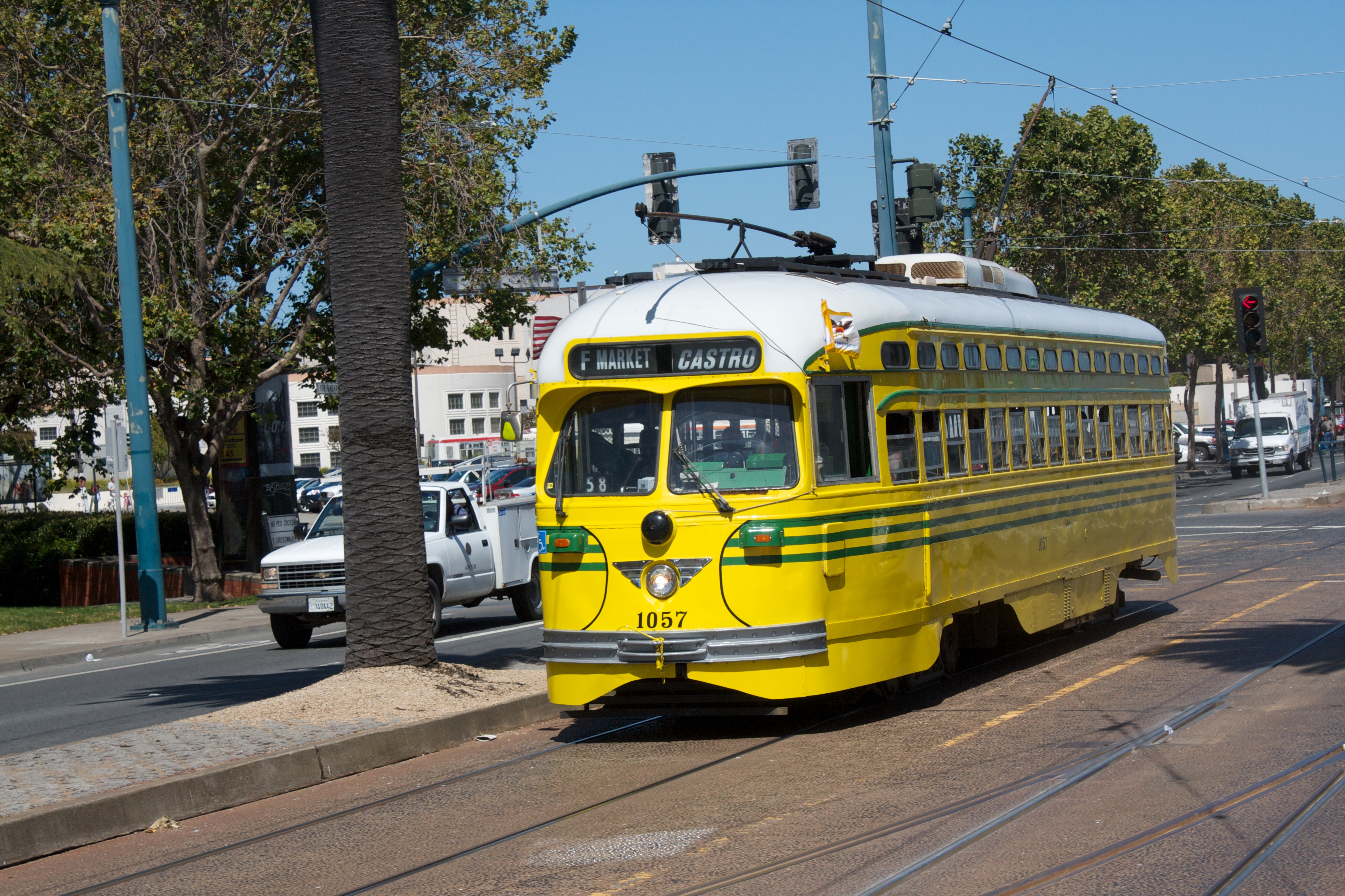 Car Number 1057 on SF Muni on Embarcadero, F-Line, Cincinnati Street Railway, San Francisco, Streetcar, PCC model, built 1948, yellow and gray with green stripes livery